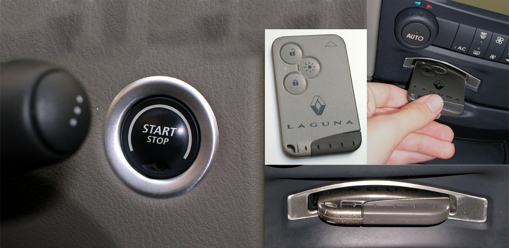 I created this montage myself, and took all the component photographs myself.